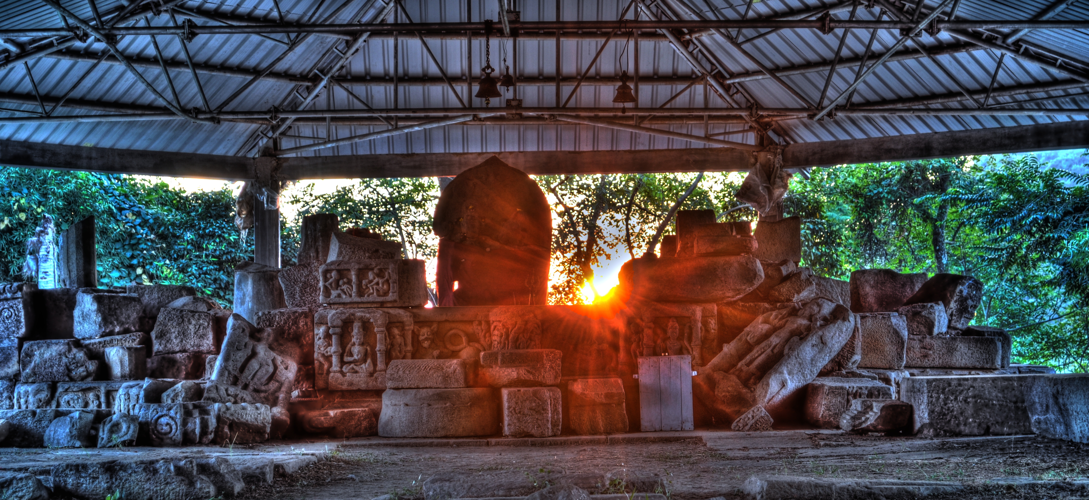 Madan Kamdev is a archaelogical site in Baihata Chariali, Kamrup. This place dates back to 9 and 10 century A.D. Excavation and ruins here shows the prosperity and might of Pala dynasty of Kamarupa.